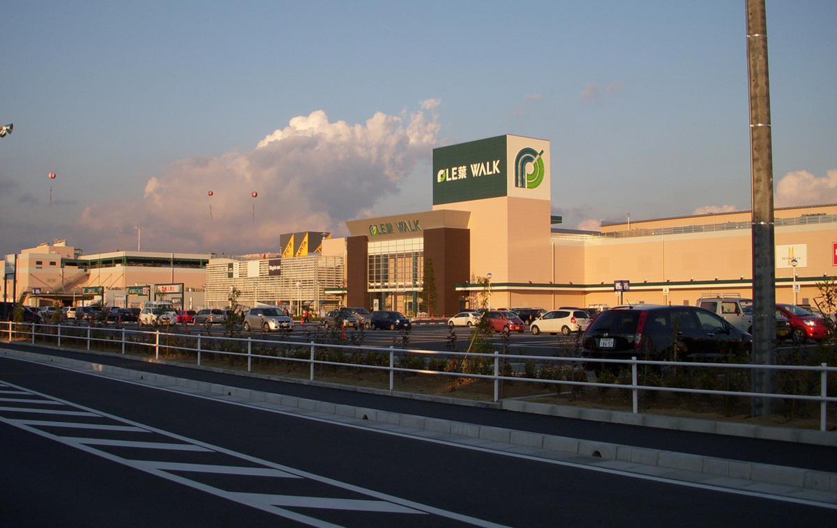 A shopping center of Japan Hamamatsu-shi, Shizuoka Hamakita ward, the appearance of preha walk Hamakita. It is photographed by the public road.